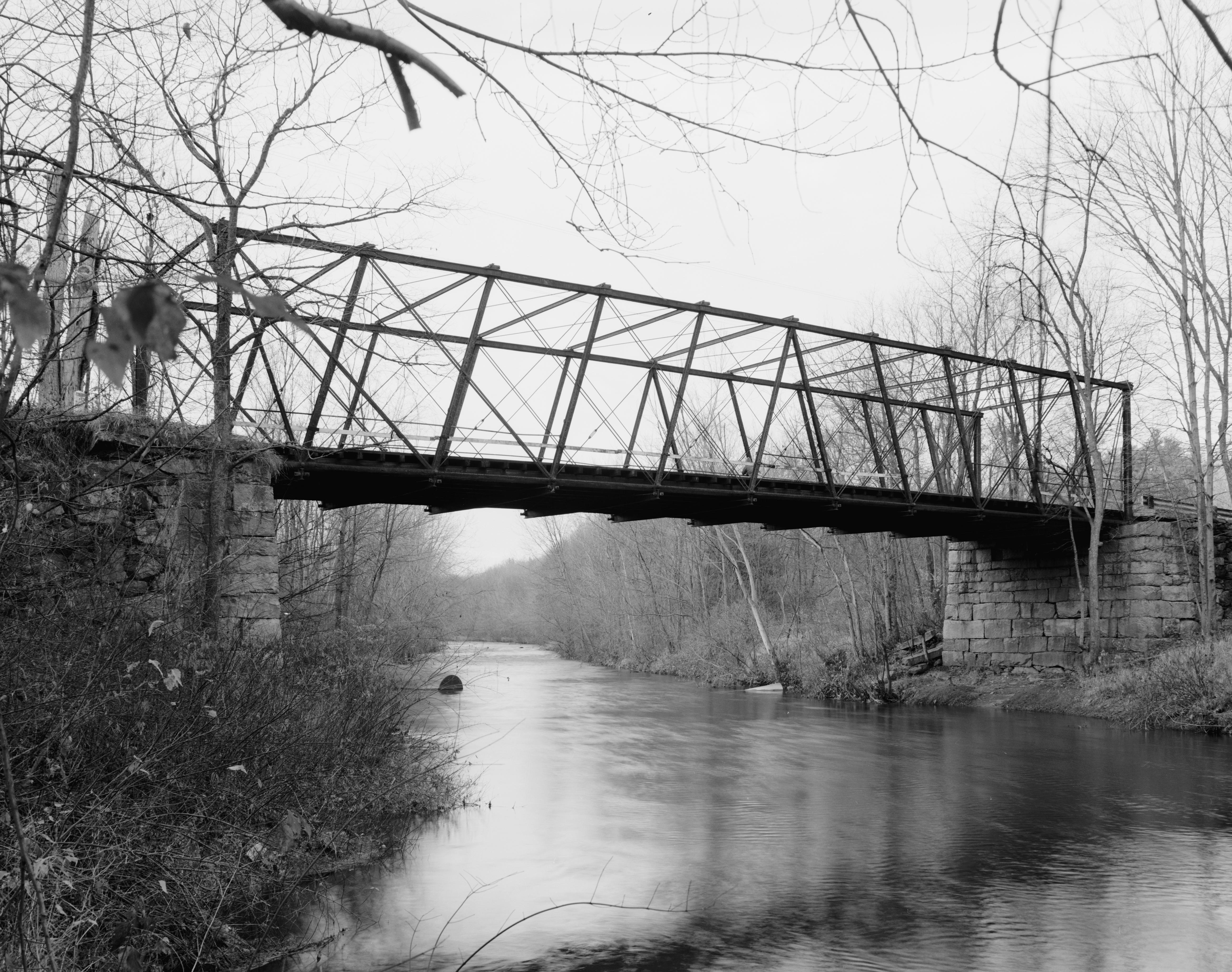 Ponakin Road Bridge, Spanning Nashua River on Ponakin Road, Lancaster vicinity, Worcester County, MA